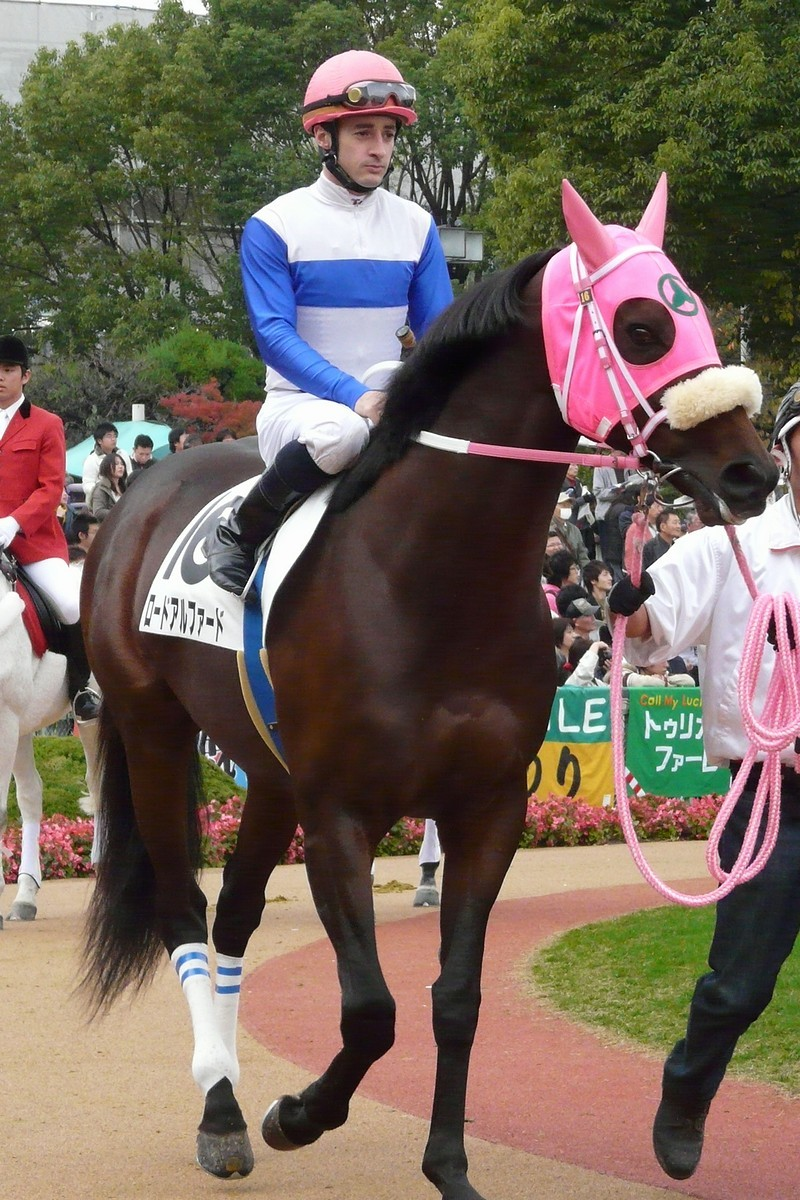 Christophe Patrice Lemaire